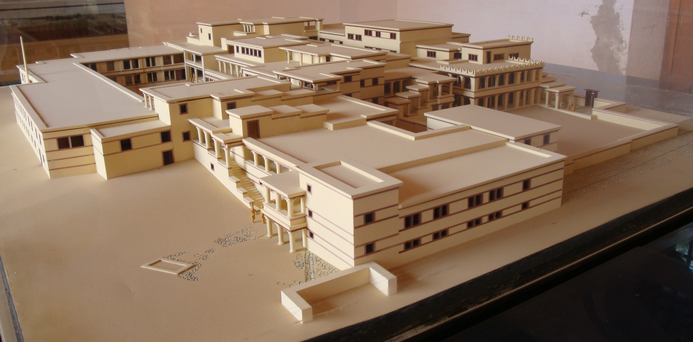 Model of Malia Palace